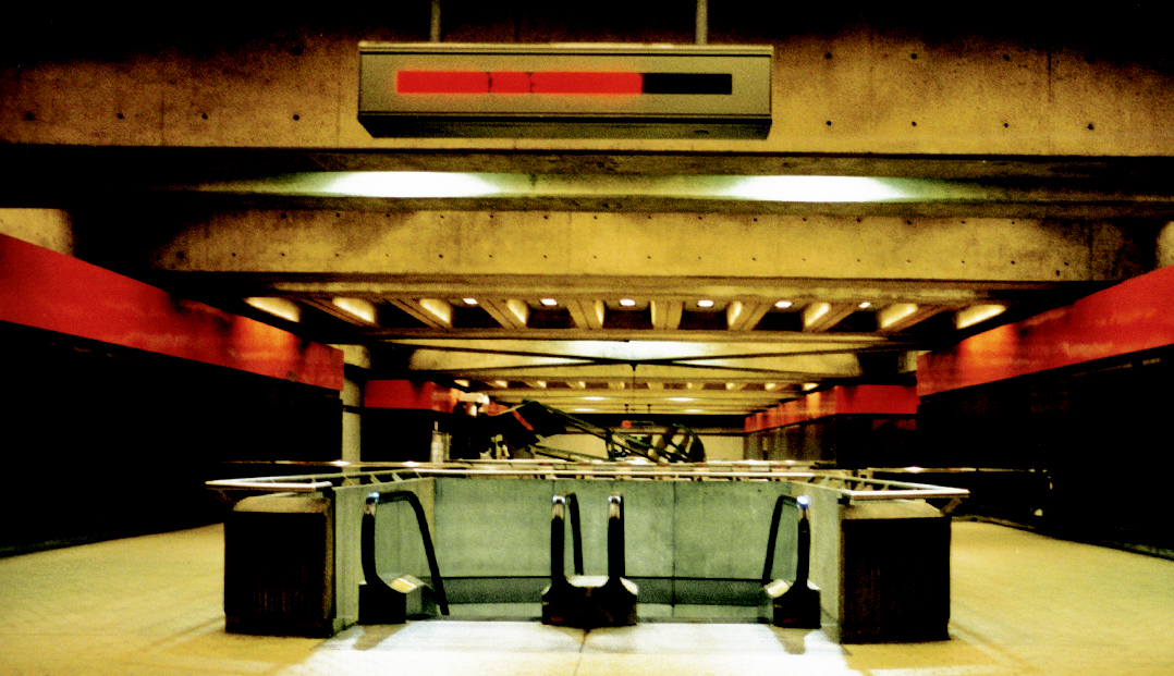 Station of the Baltimore Metro Subway